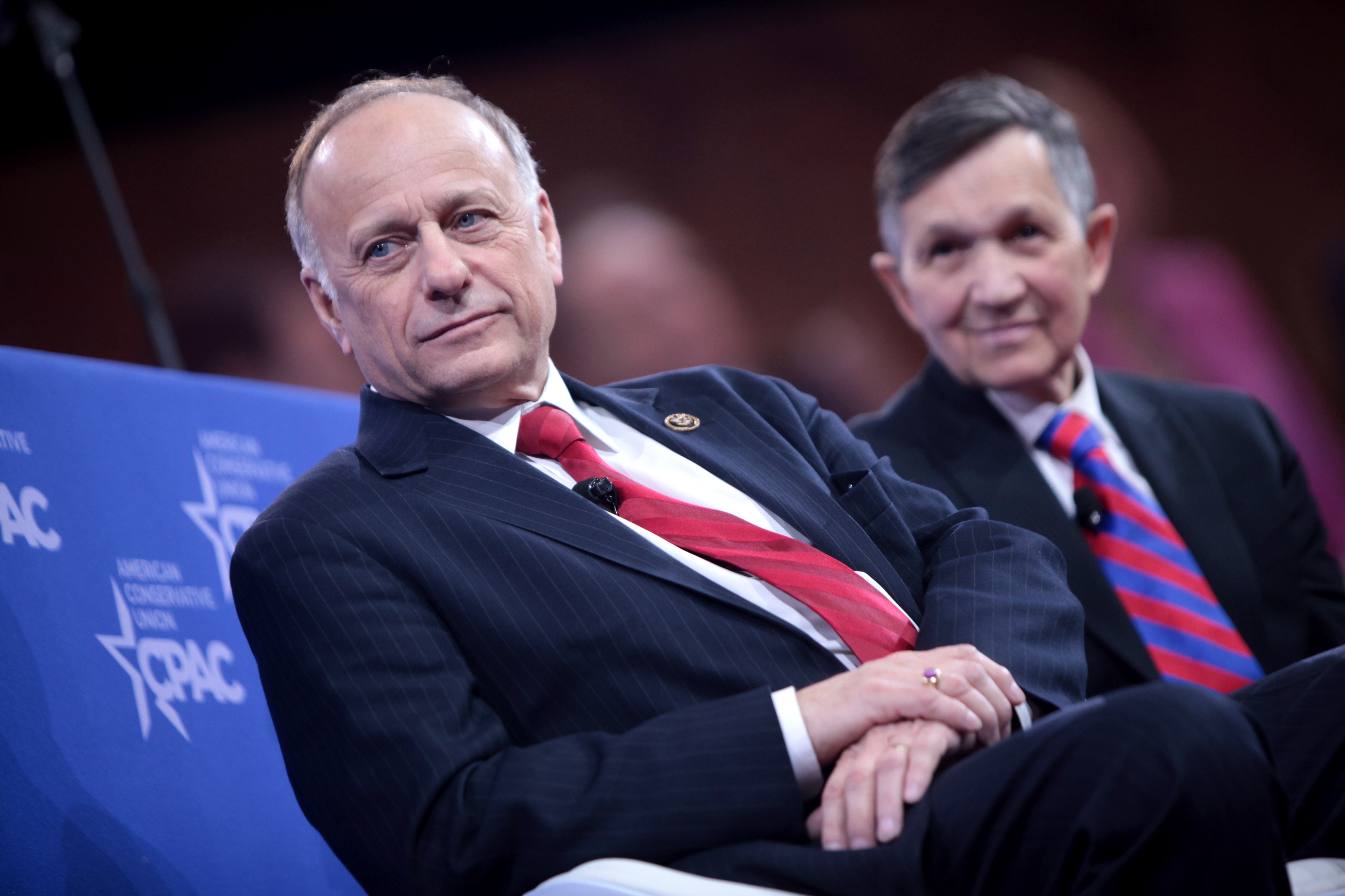 U.S. Congressman Steve King of Iowa and former U.S. Congressman Dennis Kucinich of Ohio speaking at the 2015 Conservative Political Action Conference (CPAC) in National Harbor, Maryland.